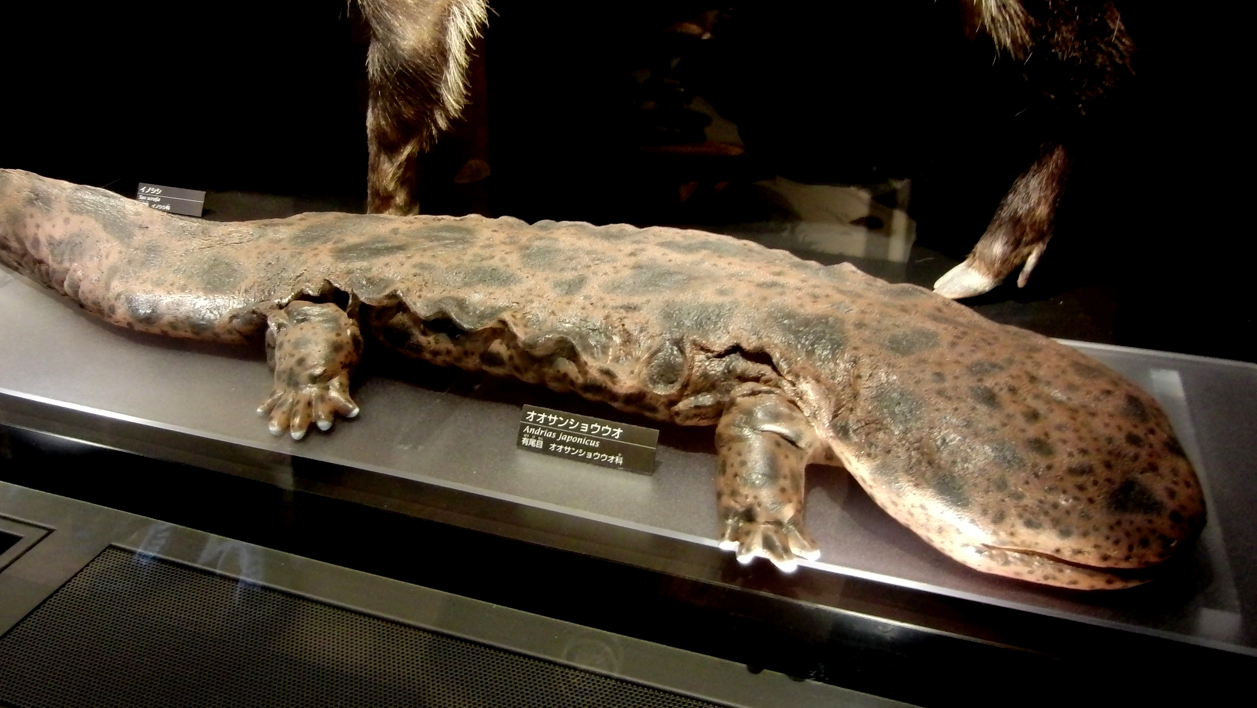 Stuffed Specimen of Japanese Giant Salamander (Andrias japonicus). Exhibit in the National Museum of Nature and Science, Tokyo, Japan.